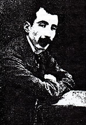 Rupen Zartarian